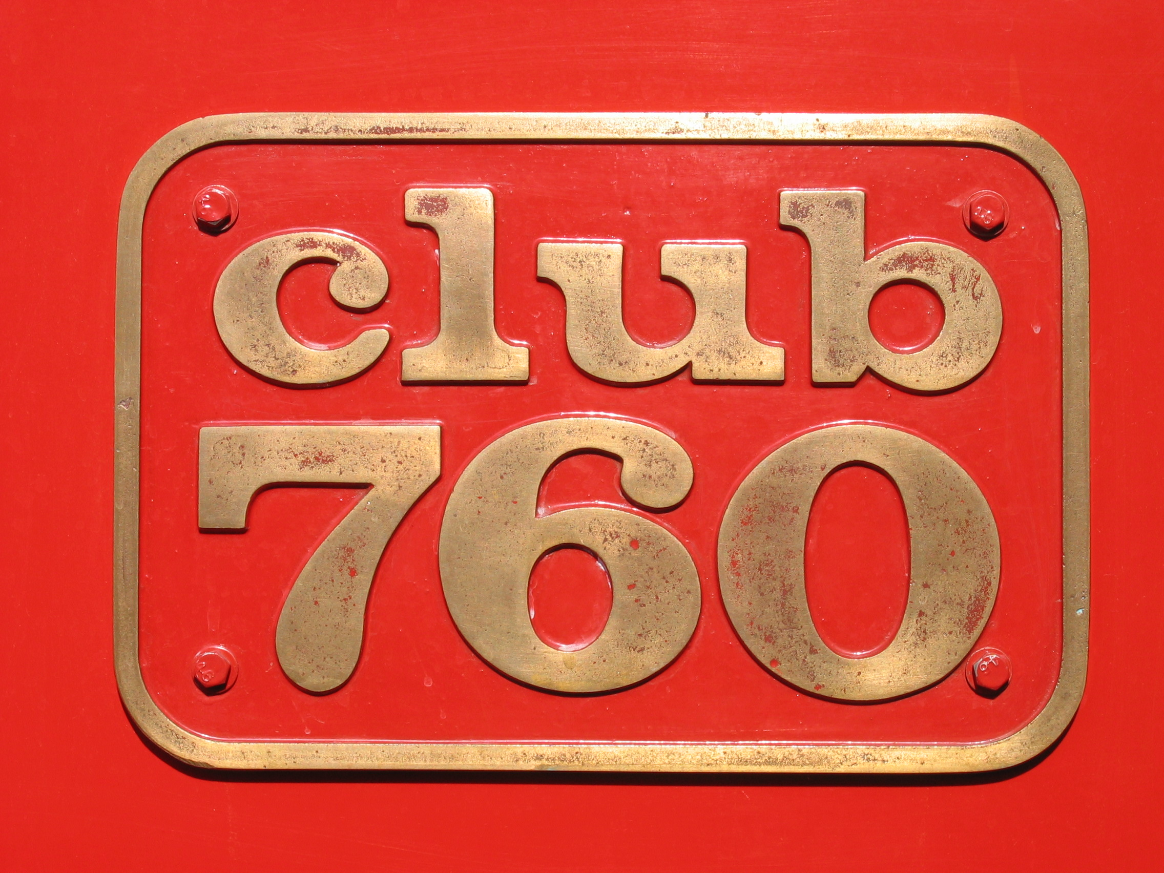 Club 760 owner's plate on narrow gauge steam locomotive 699.01